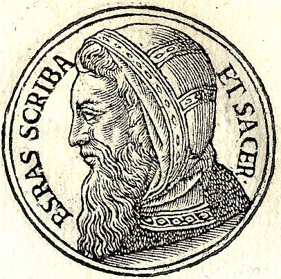 Esdras-Ezra was a Jewish priestly scribe who led about 5 000 Israelite exiles living in Babylon to their home city of Jerusalem in 459 BCE.